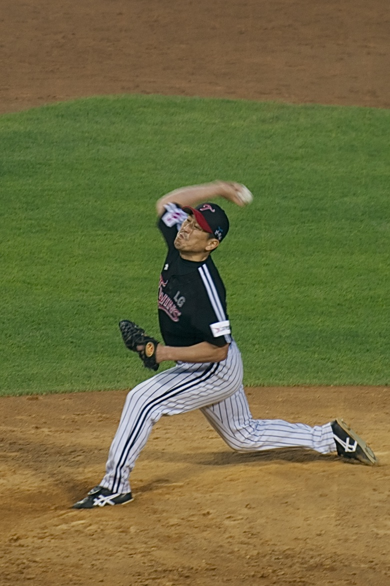 Bong Jung-Keun